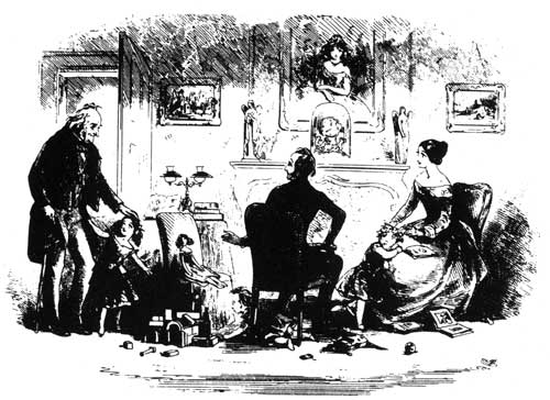 David Copperfield, A stranger calls to see me by Phiz